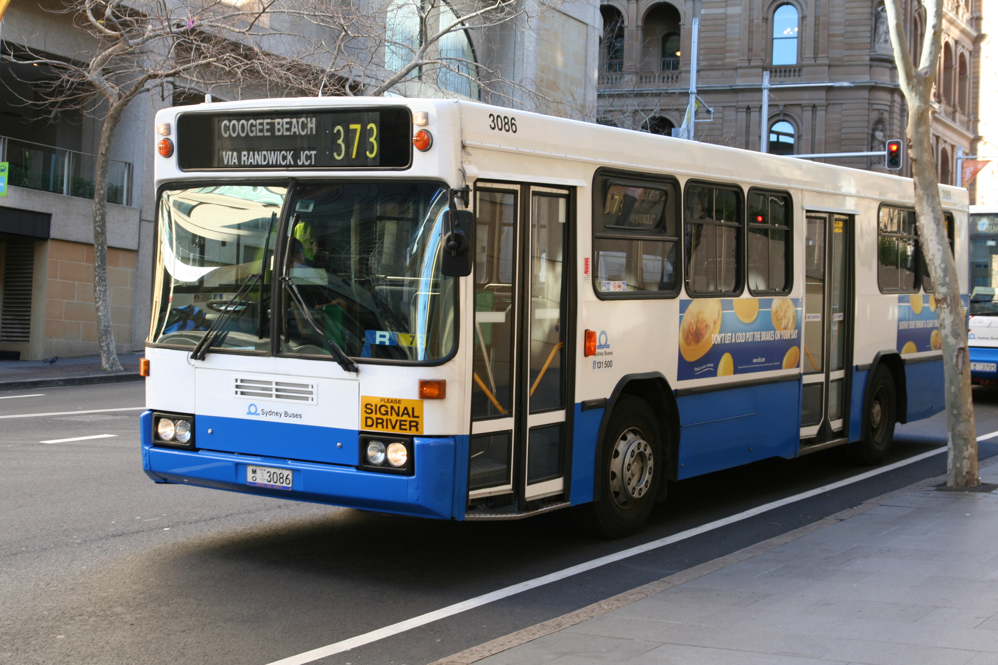 Sydney Buses, PMC bodied Mercedes-Benz O405 (Mark 5) operating on route 373.